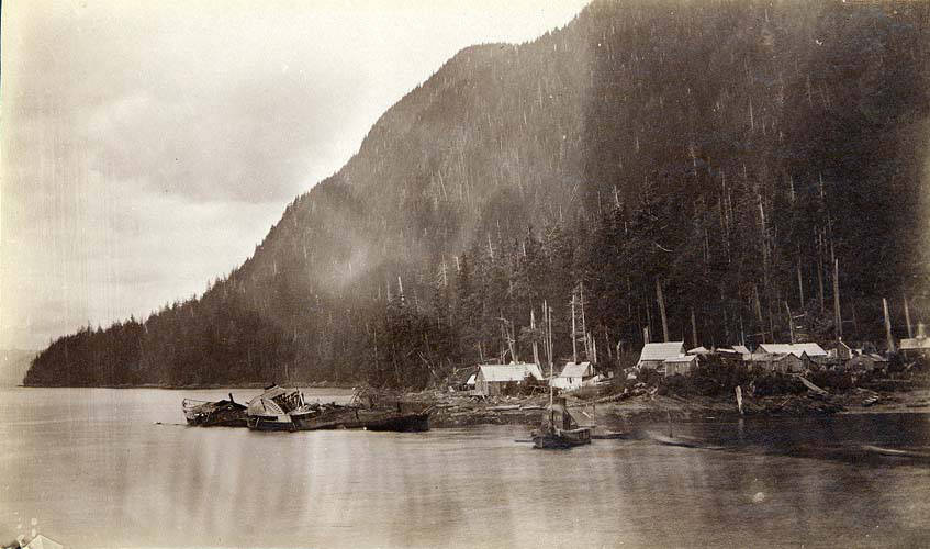 Subjects (LCTGM): Shipwrecks--Alaska--Loring Bay; Harbors--Alaska--Loring Bay; Ships--Alaska--Loring Bay Subjects (LCSH): ANCON (Steamship)